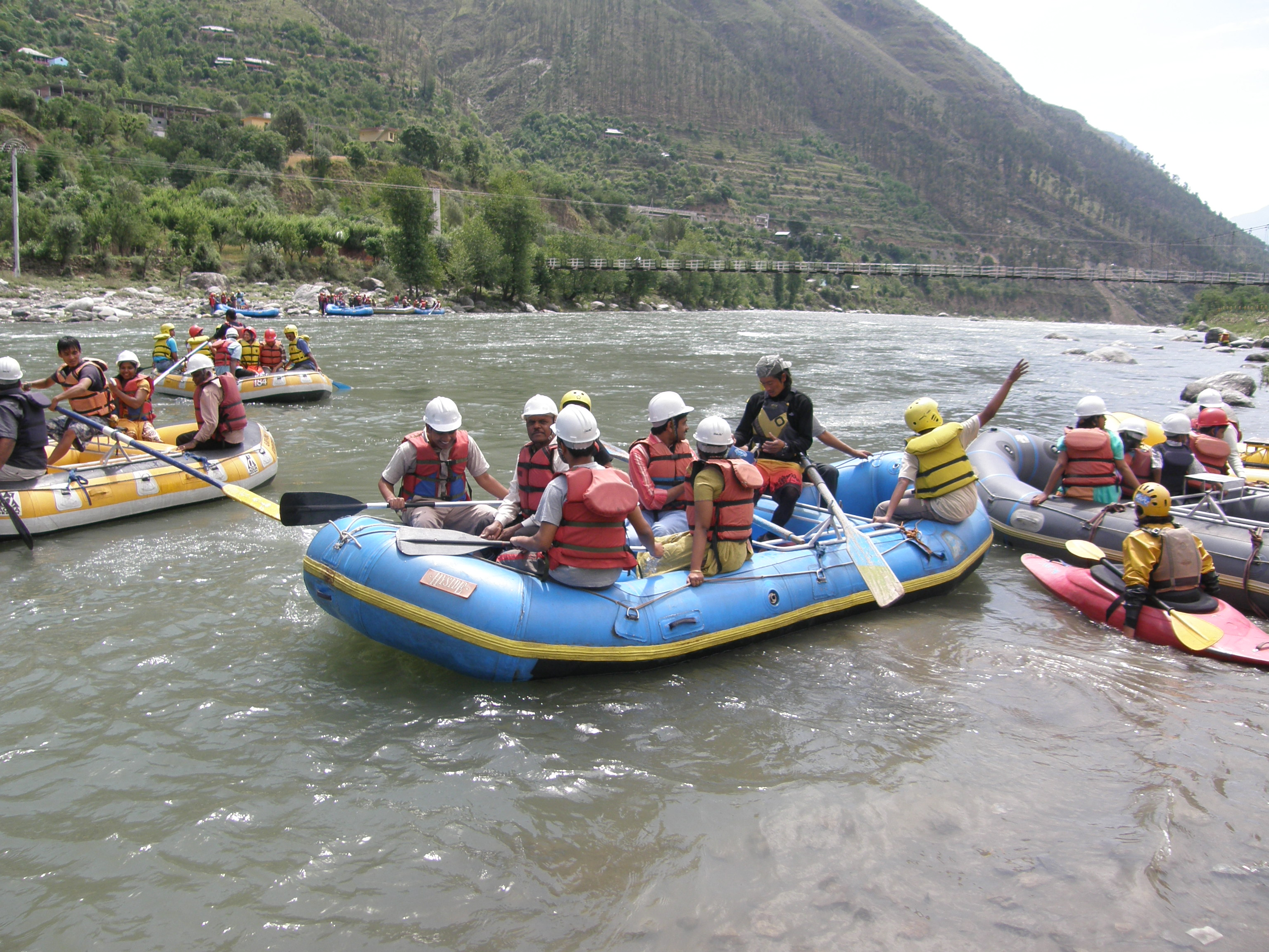 White Water Rafting in River Beas - Malani - Himachal Pradesh